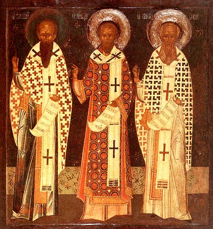 Three Holy Hierarchs (russian icon, Pskov)